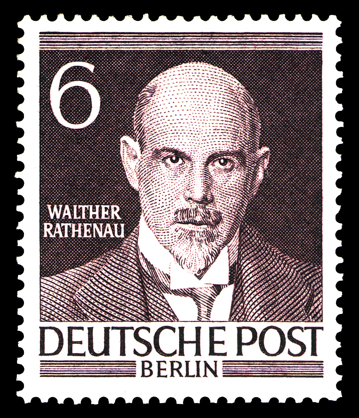 stamp series, men of the history of Berlin I, Walther Rathenau, (1867-1922)